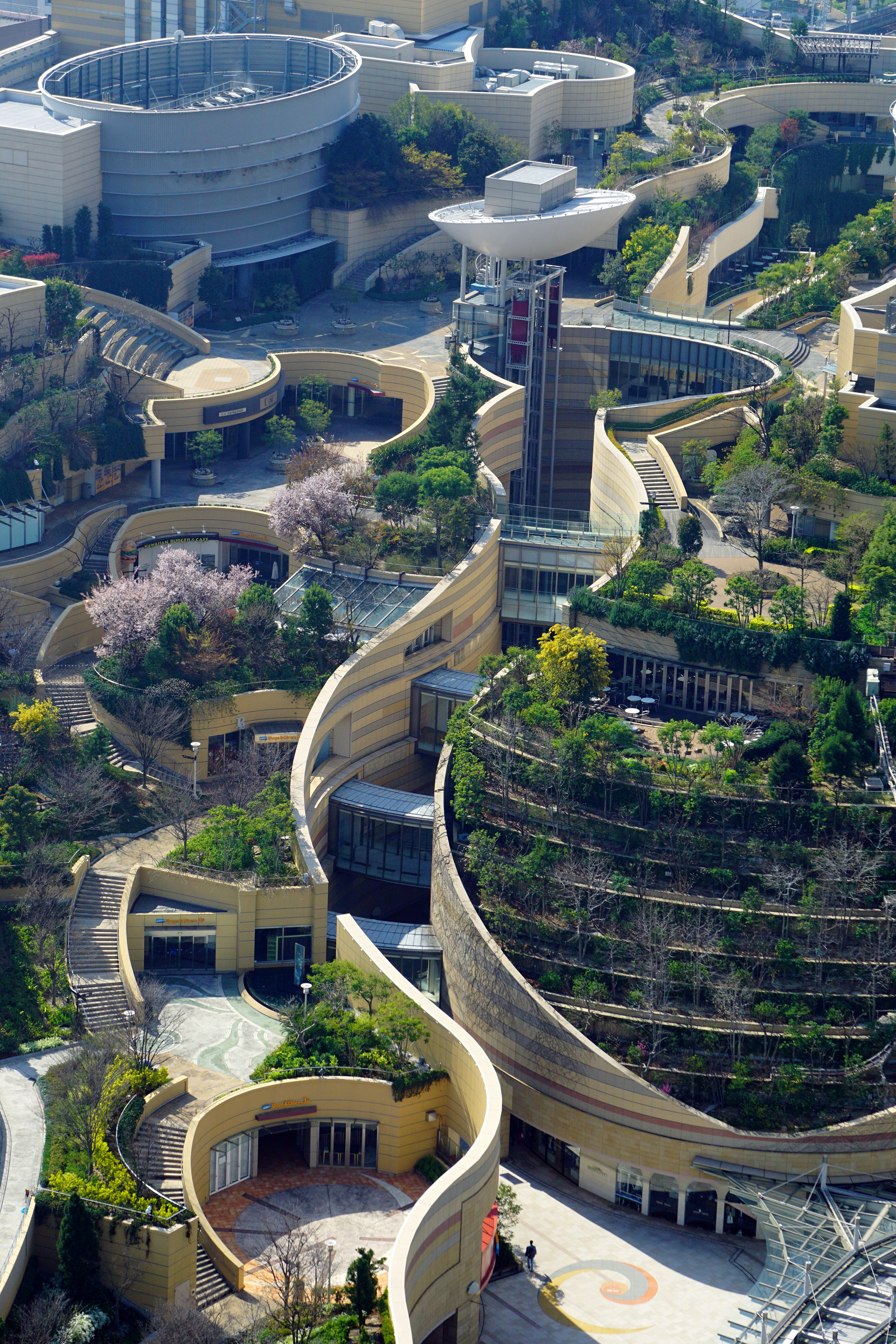 Namba Parks view from Swissôtel Nankai Osaka in Osaka, Osaka prefecture, Japan